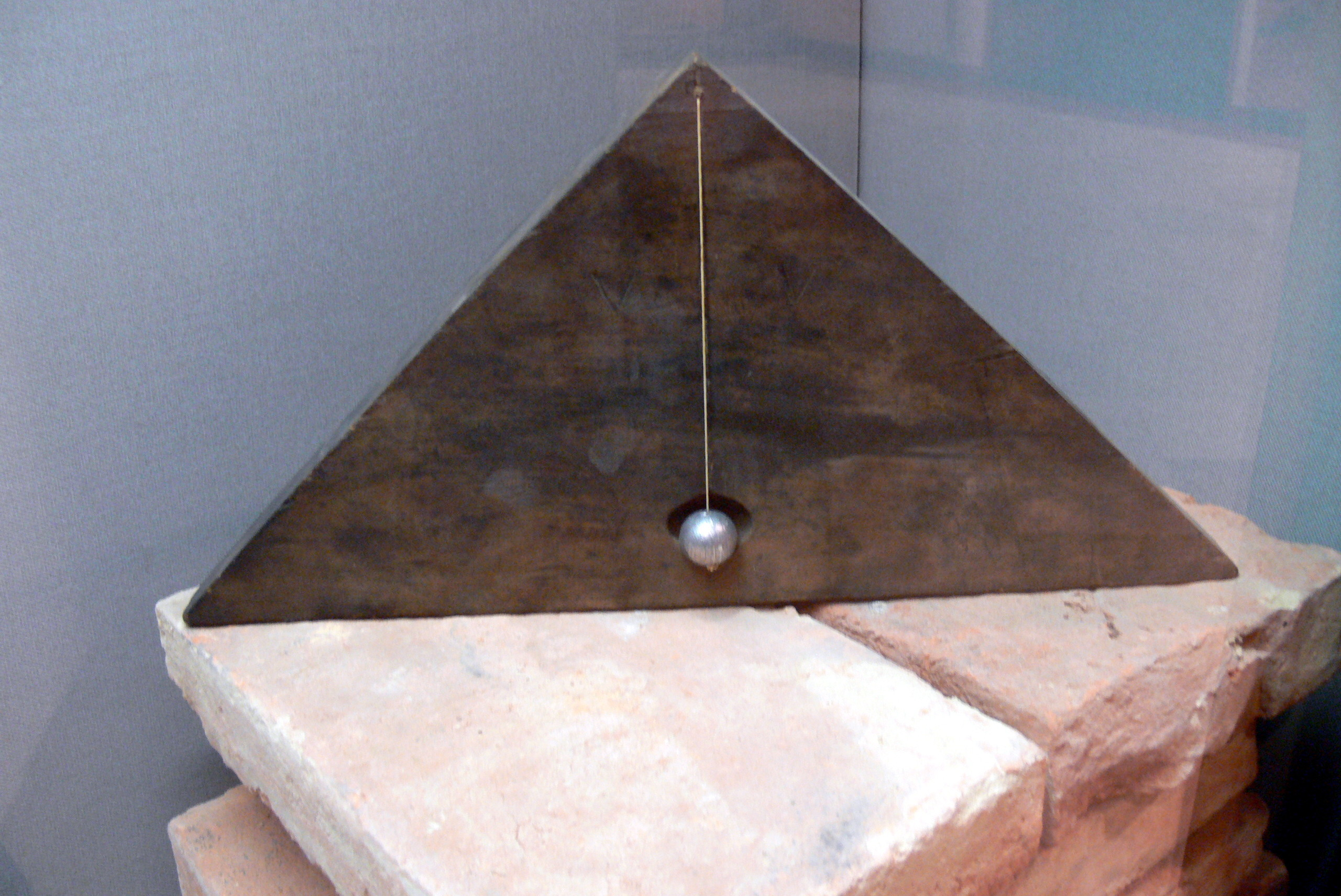 Oberhausmuseum ( Passau ). Plumb bob ( 19th century ).